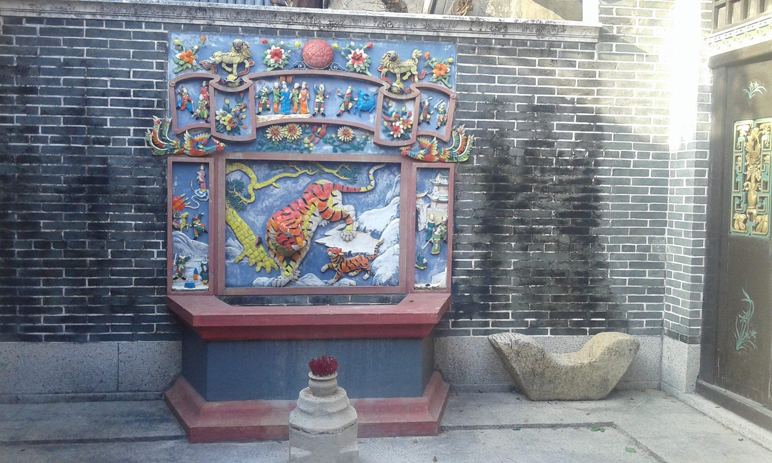 Interior of Pak Tai Temple, Cheung Chau, Hong Kong. Relief of a tiger.